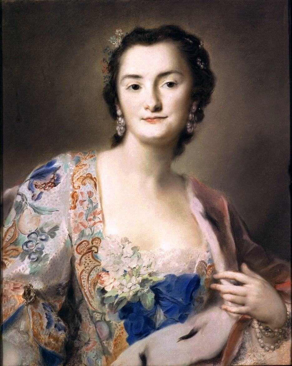 Portrait of the countess Anna Katharina Orzelska